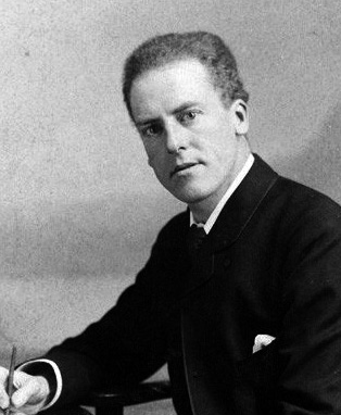 Portrait of Karl Pearson, 1890.